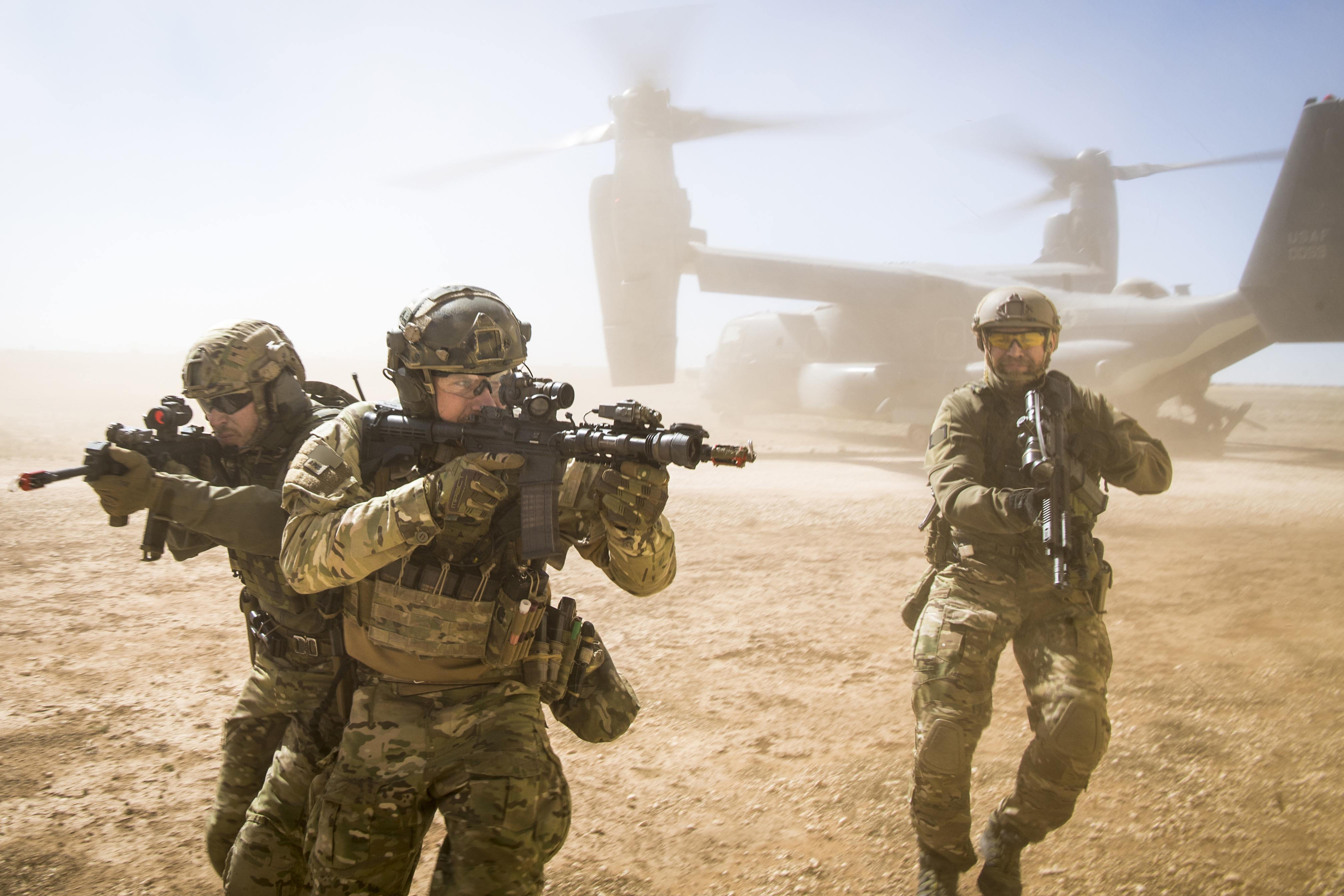 A joint special forces team moves together out of an Air Force CV-22 Osprey aircraft, Feb. 26, 2018, at Melrose Training Range, N.M., during Emerald Warrior, the largest joint and combined special operations exercise.